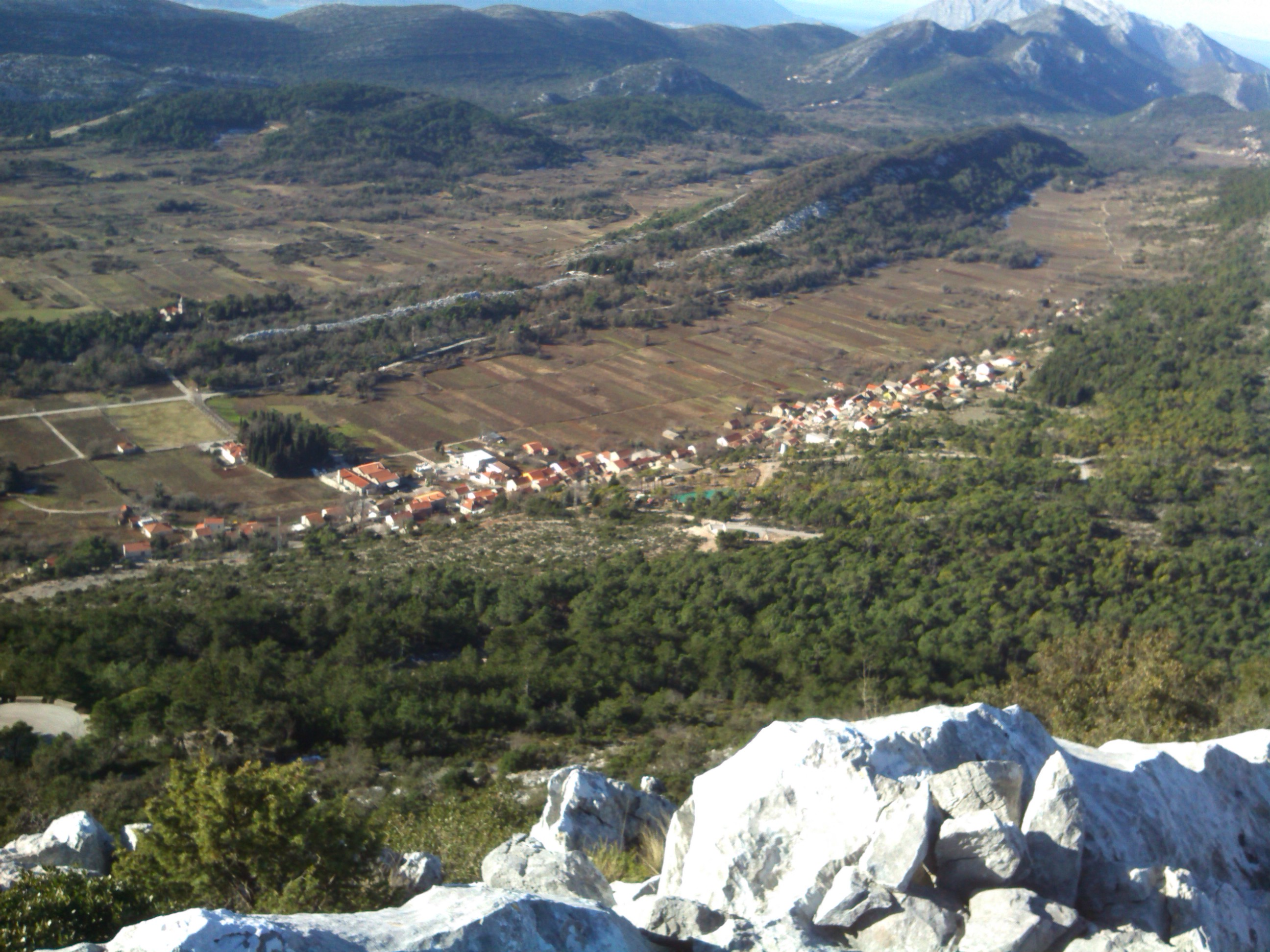 Kuna Pelješka as seen from north (Rota hill)